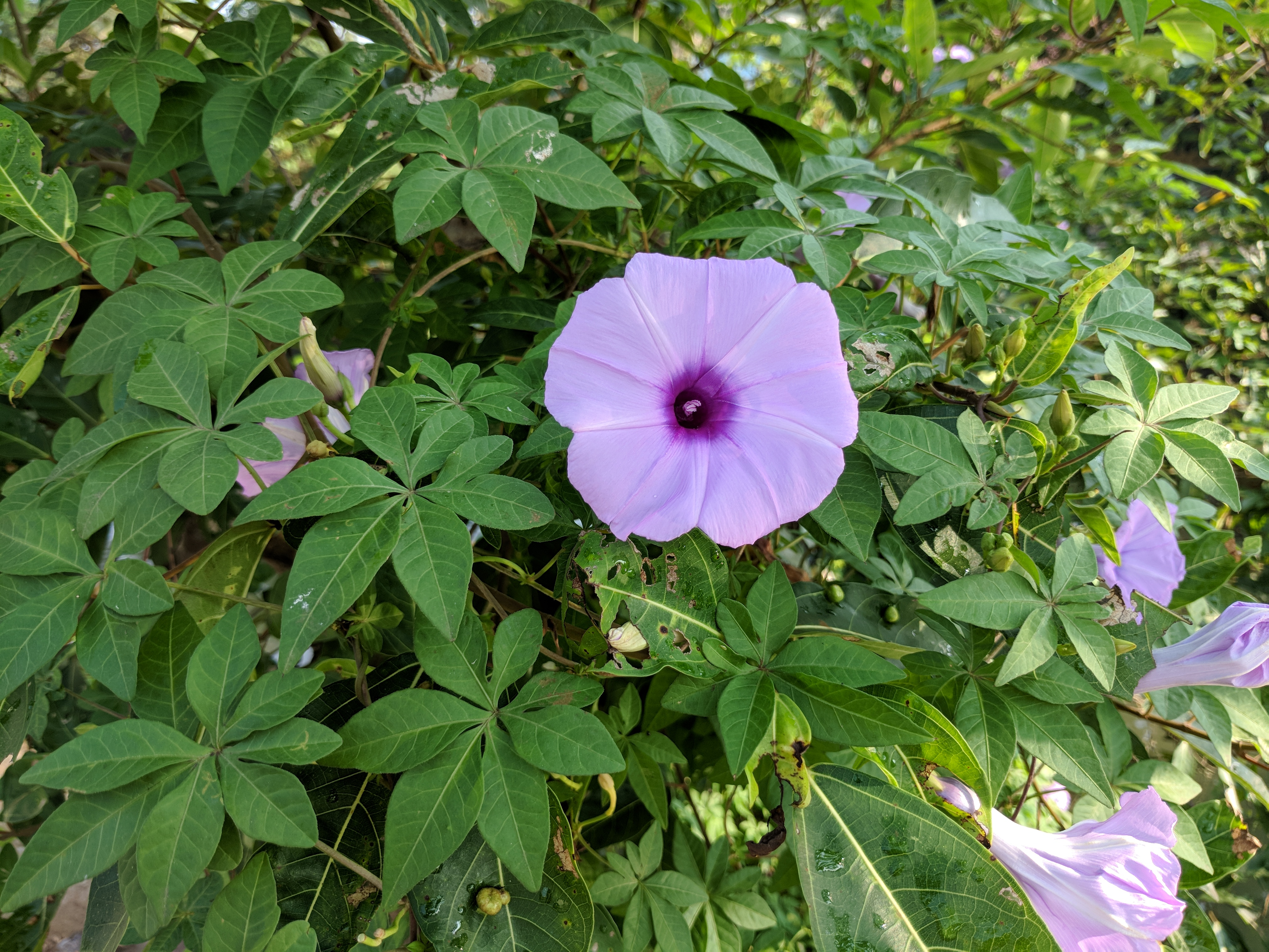 Railroad creeper (Ipomoea cairica), Kerala, India.